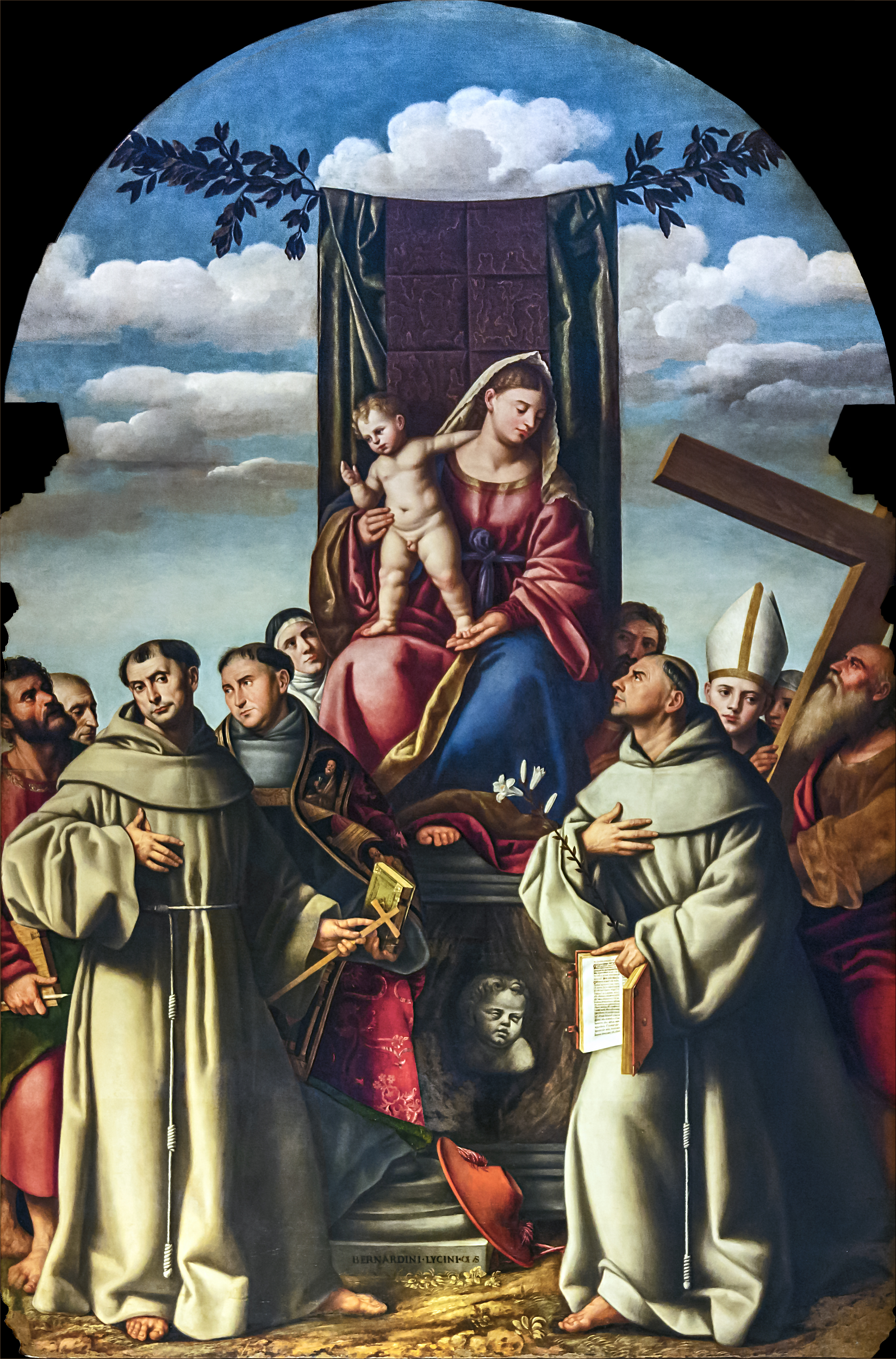 The Basilica di Santa Maria Gloriosa dei Frari. Cappella Santi Francescani (Chapel of Franciscan saints). Madonna and Child Enthroned with Franciscan saints byBernardino Licinio. Oil on wood panel, 280 × 190 cm (1535).